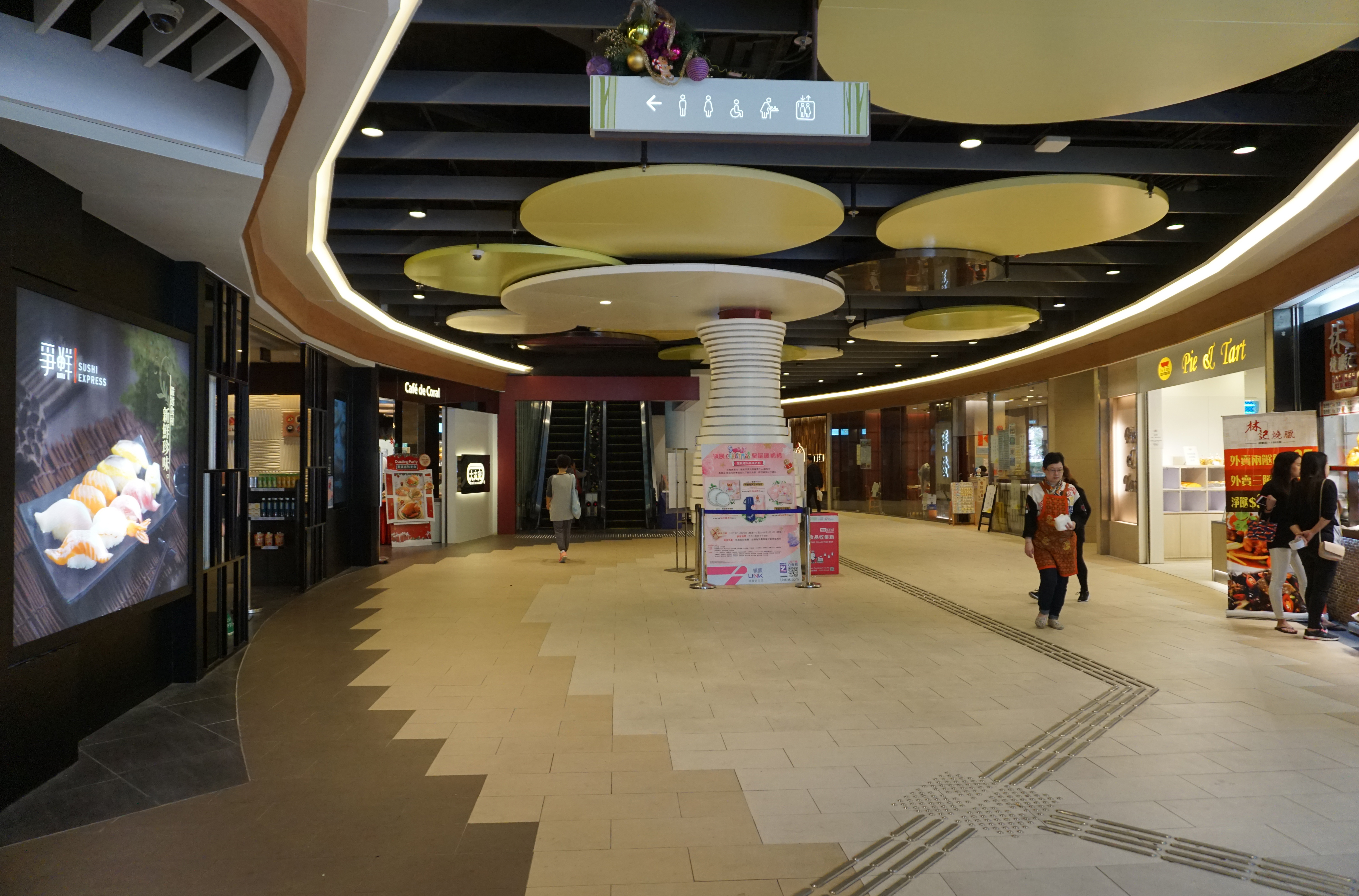 Tsing Yi Shopping Centre in Tsing Yi, Hong Kong.